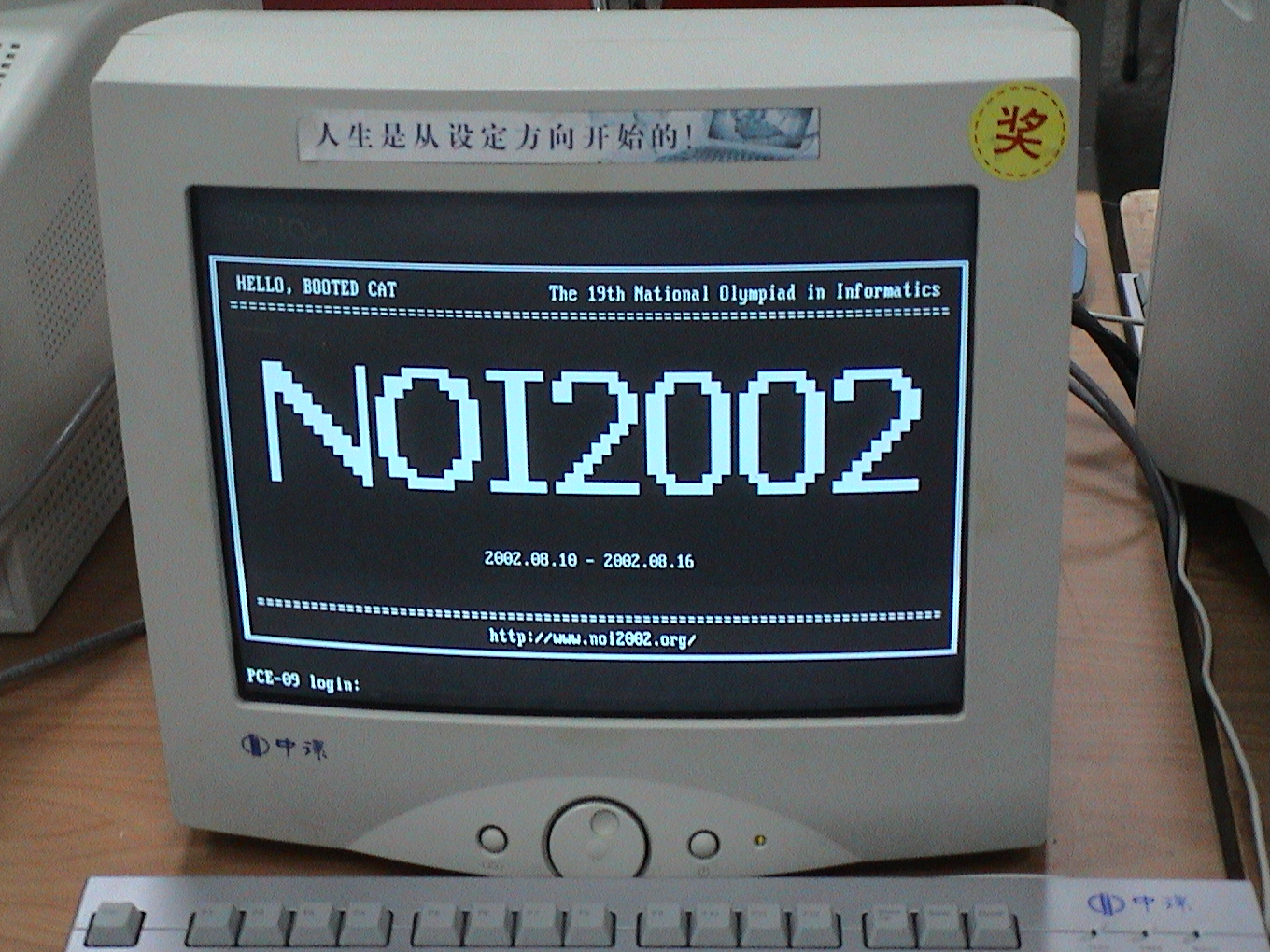 NOI 2002 Computer used in 2002 National Olympiad in Informatics.